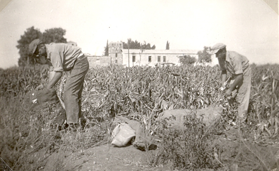 Settlements in Israel